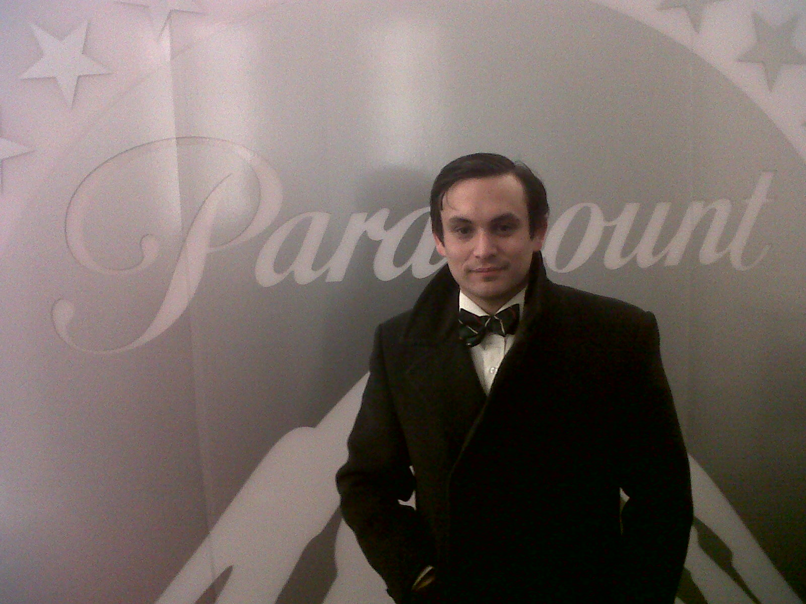 Photo of Simon infront of Paramount Sign